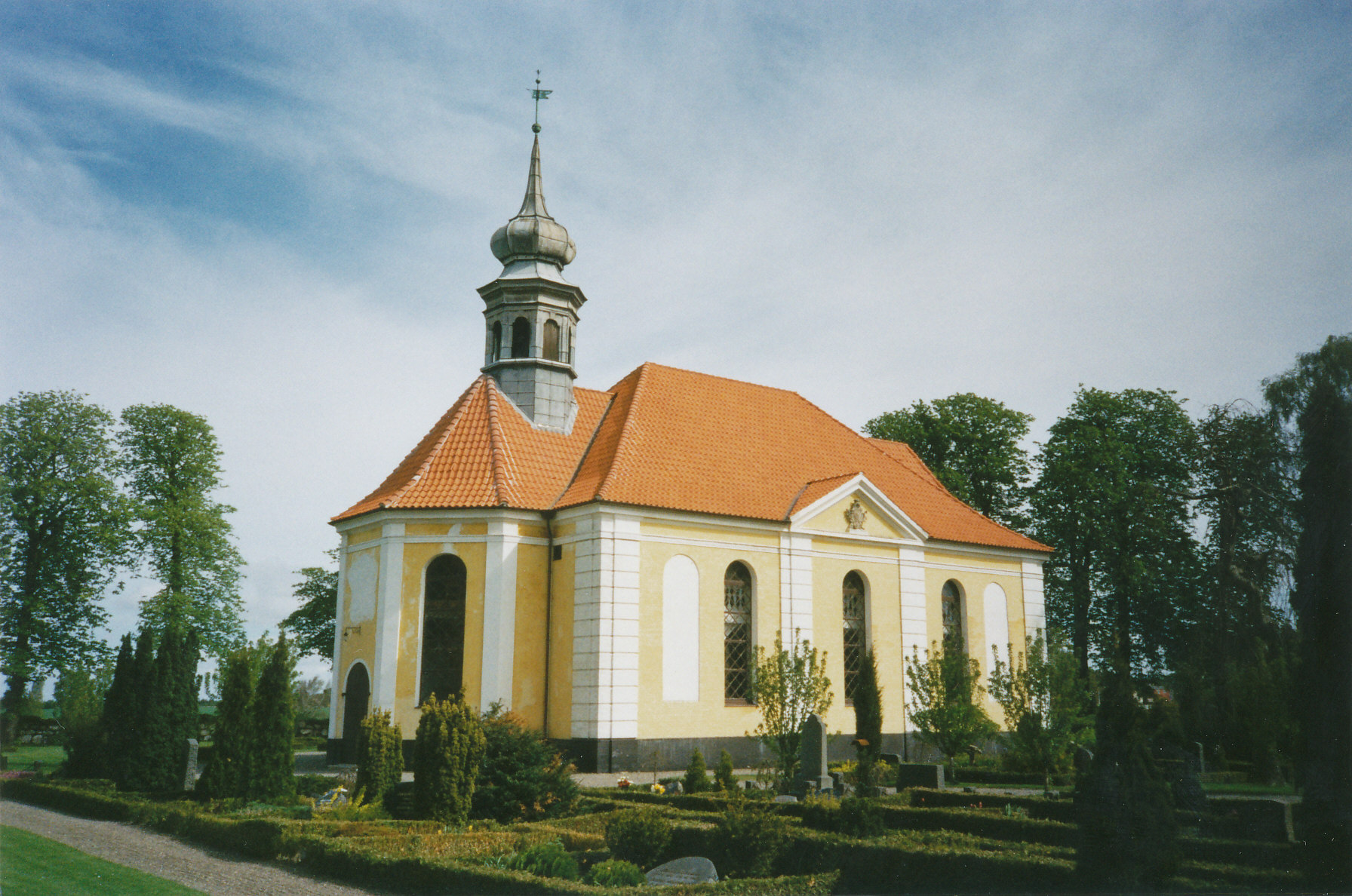 The church Damsholte Kirke on the island of Møn, Denmark